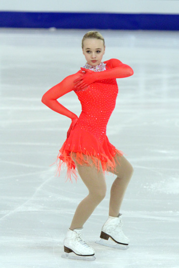 Isabel Drescher at the 2010 World Junior Figure Skating Championships